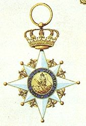 Cross Order of the Union Kingdom of Holland 1807